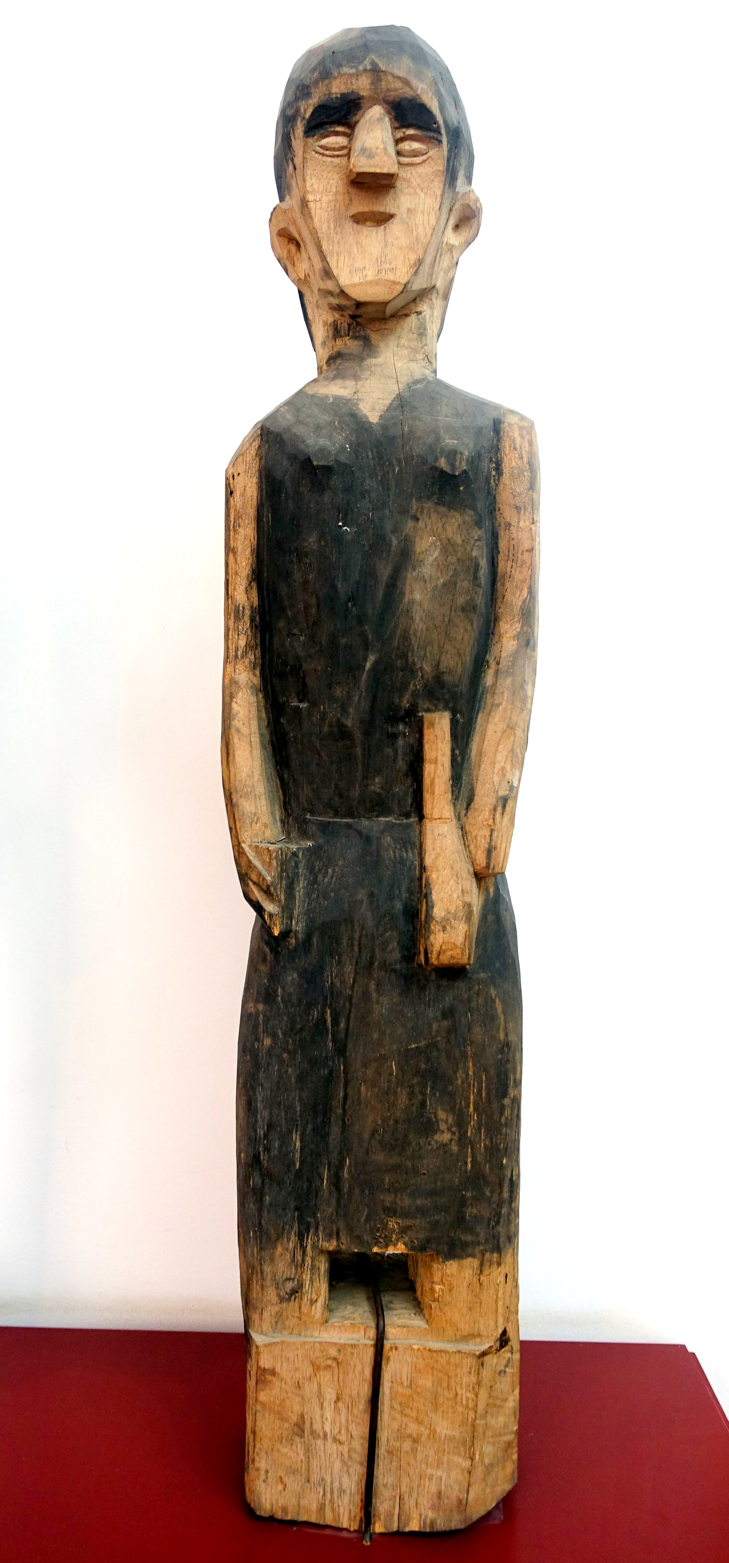 Exhibit in the Vietnam Museum of Ethnology - Hanoi, Vietnam.